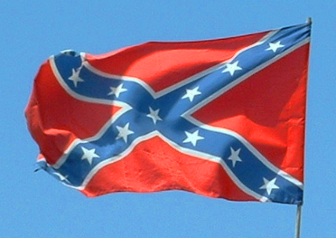 I took this picture of a confedered navy jack in No Name City in Wöllersdorf near Vienna on June 16 2006. Do whatever you like with it.